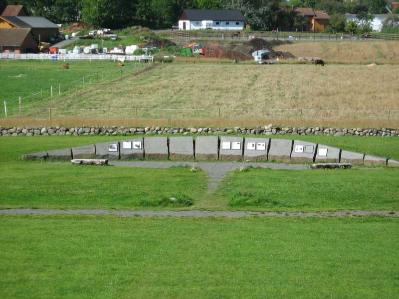 Gokstad, Sandefjord, Norway. Archaeological site of the Gokstad-vikingship, now exposed in Vikingskiphuset, Oslo